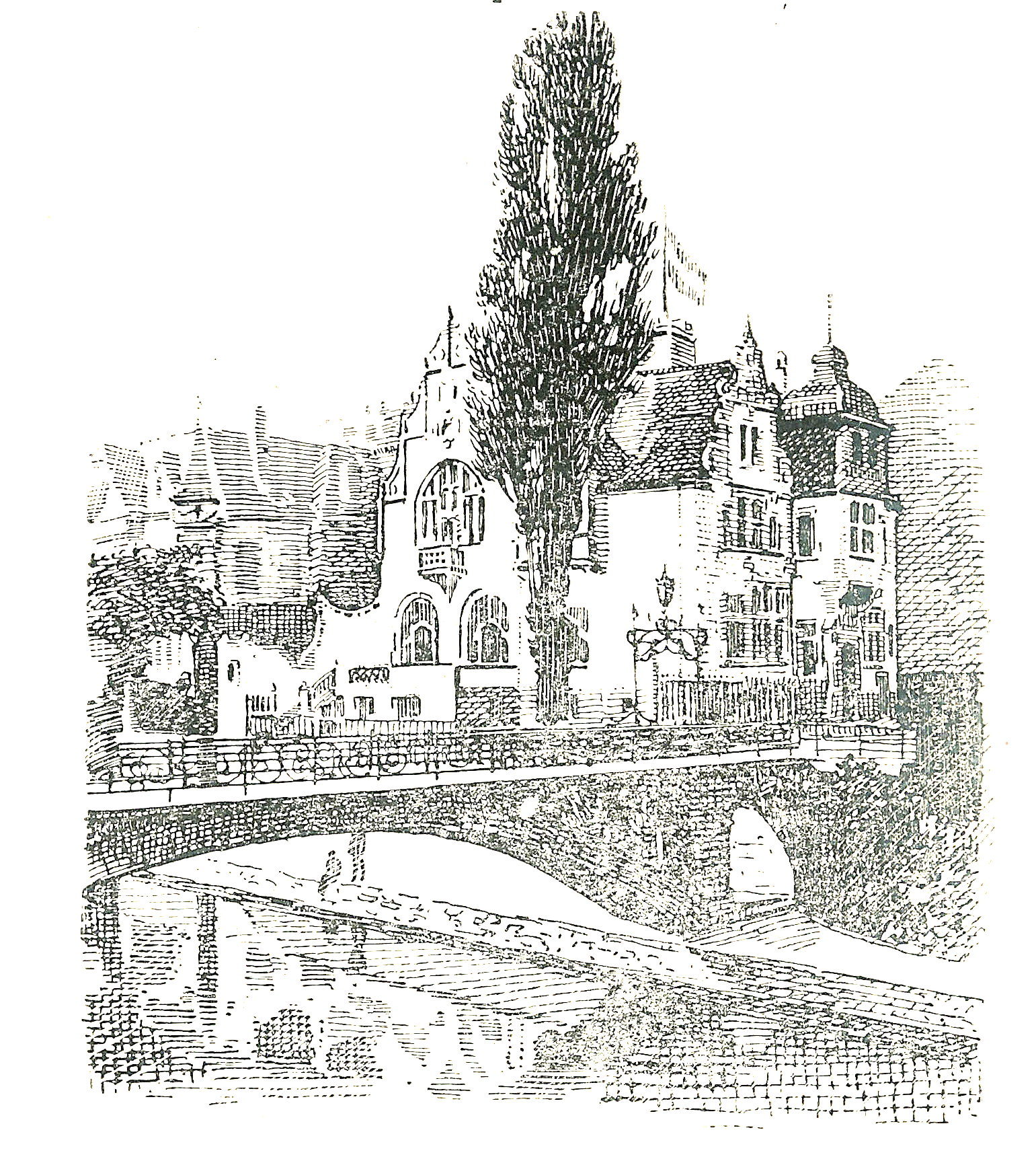 Former house of former student fraternity Corps Palatia Strassburg (Alsatia), Zimmerhofstrasse 6